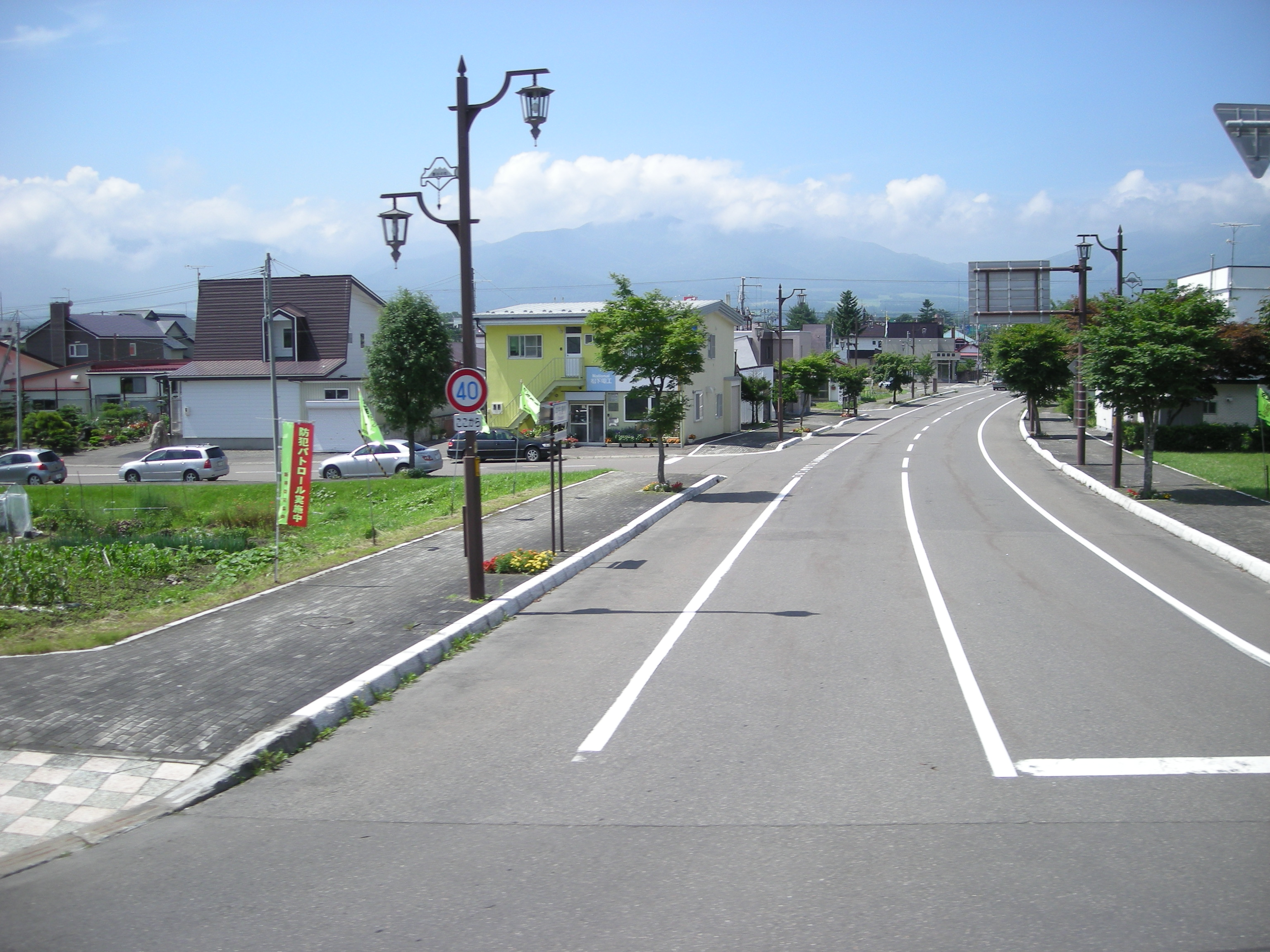 Hokkaido prefectural road route 1075,Japan